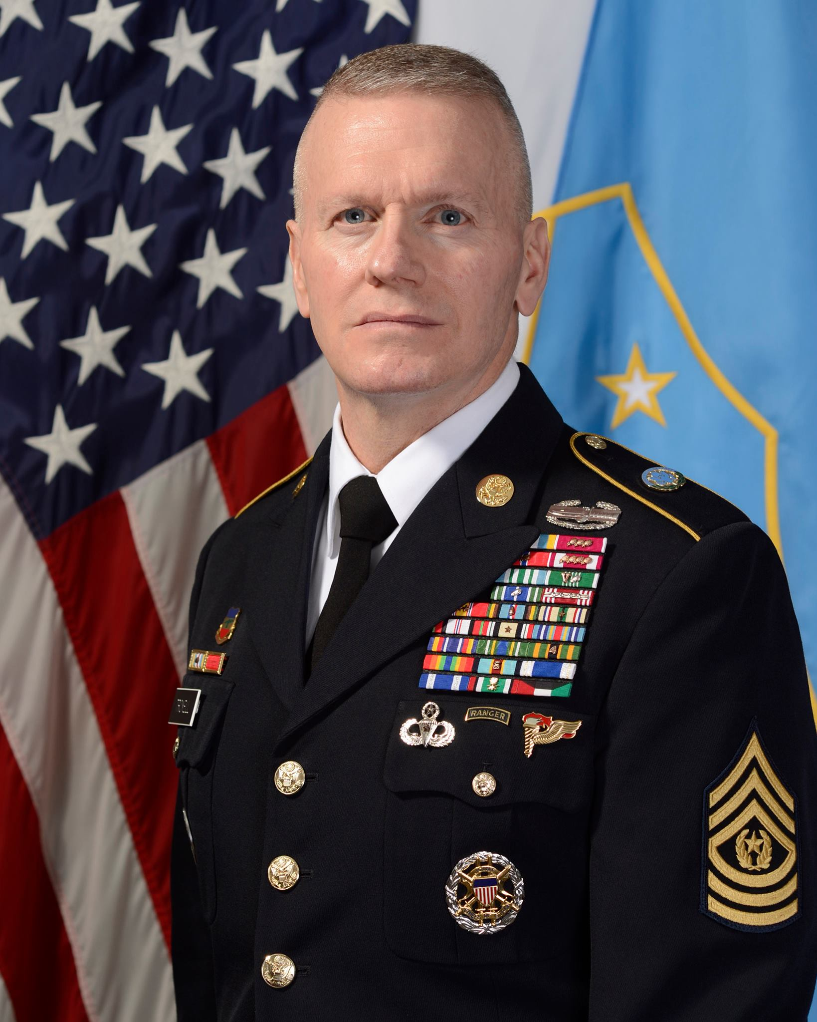 Bio Photo of SEAC Troxell.